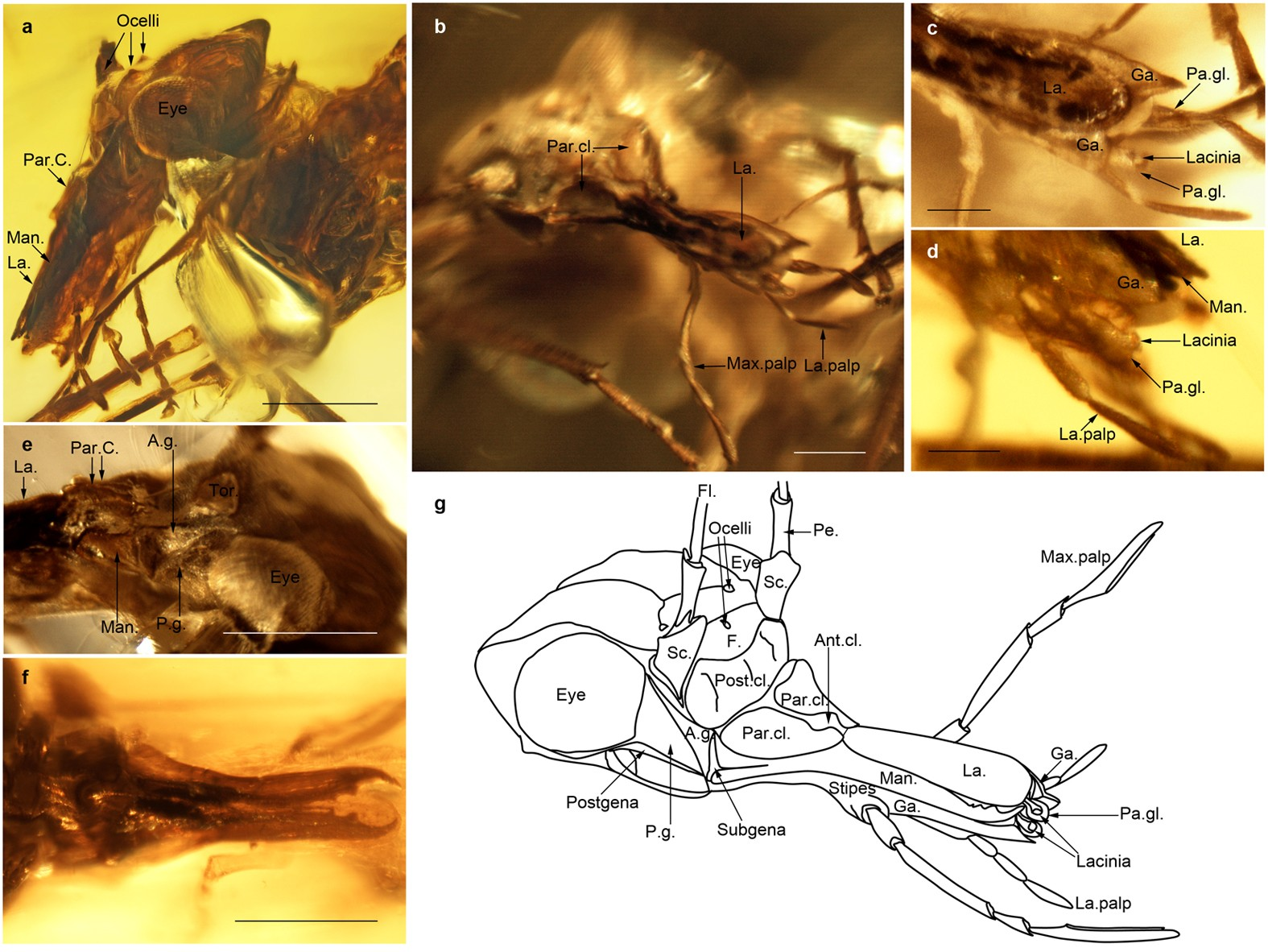 Head of Psocorrhyncha burmitica gen. et sp. nov. (a) Left lateral view. (b) Dorso-frontal view. (c) Dorsal view, apex of mouthparts. (d) Lateral view, apex of mouthparts. (e) Lateral view, gena and base of mandible. (f) Dorsal view of mandibles. (g) Reconstruction of head (drawn by PN). Allotype specimen SMNS Bu-157 (a–e, g); Paratype specimen SMNS Bu-135 (f). Ant.cl. median part of anteclypeus; A.g. anterior part of gena; P.g. posterior part of gena; Ga. galea; F. frons; Fl. flagellomere; La. labrum; La. palp labial palp; Man. mandible; Max. palp maxillary palp; Pa.gl. paraglossa; Par.cl. paraclypeus; Pe. pedicel; Post.cl. postclypeus; Sc. scape, Tor. Antennal torulus. Scale bars, 200 μm (a,e,f), 100 μm (b), 50 μm (c,d).